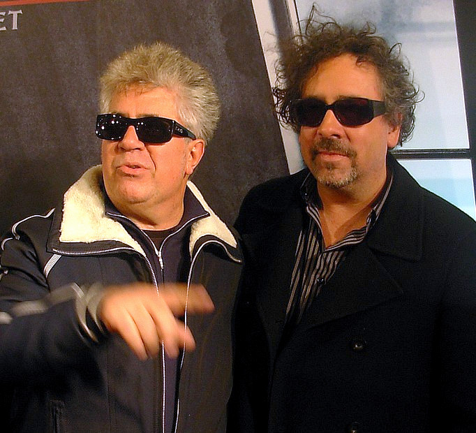 Pedro Almodóvar (left) and Tim Burton (right) at the première of the film Sweeney Todd in Madrid (Spain).